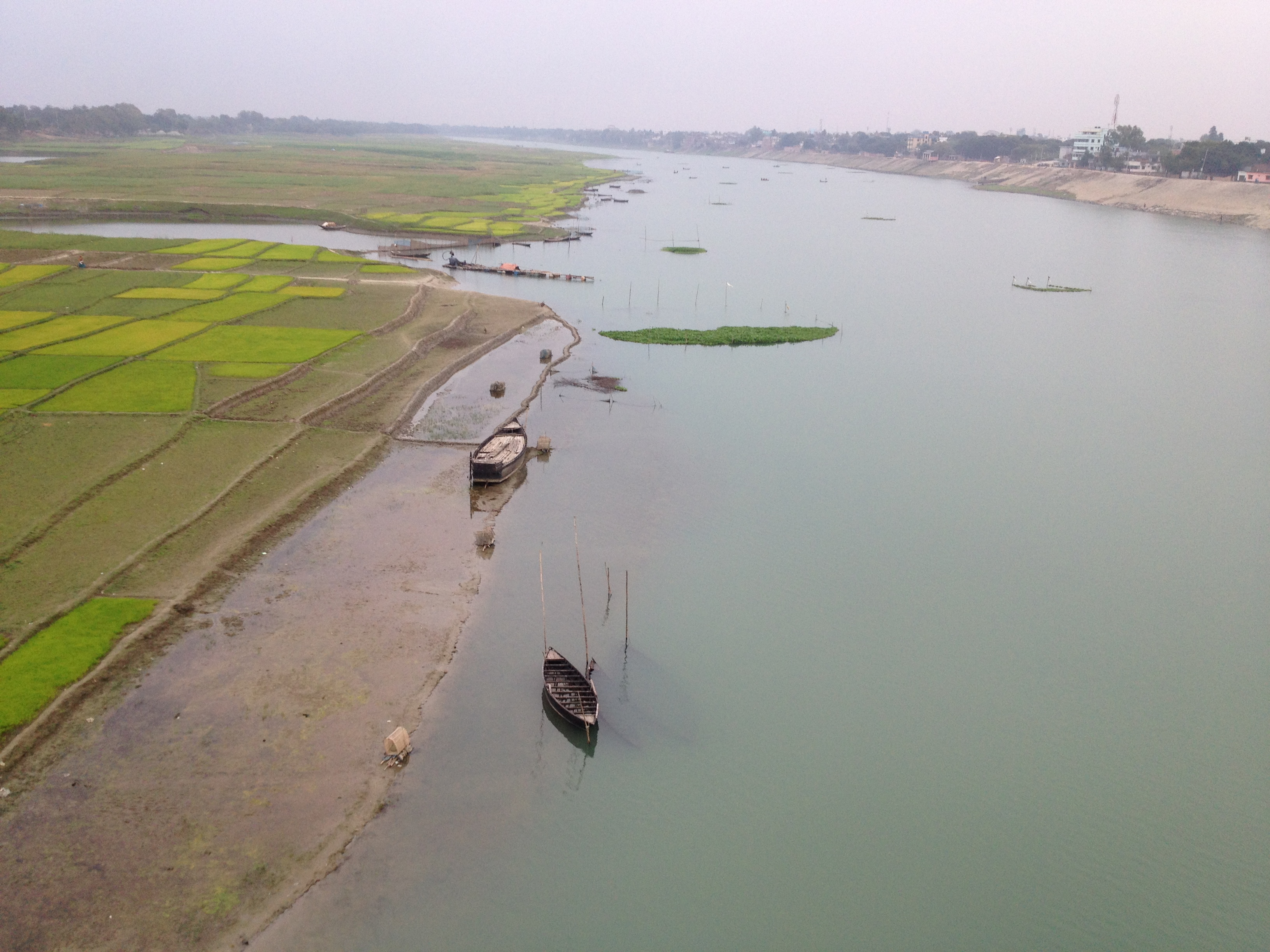 This image was captured from Captain Jahangir Bridge Chapai Nawabganj district.